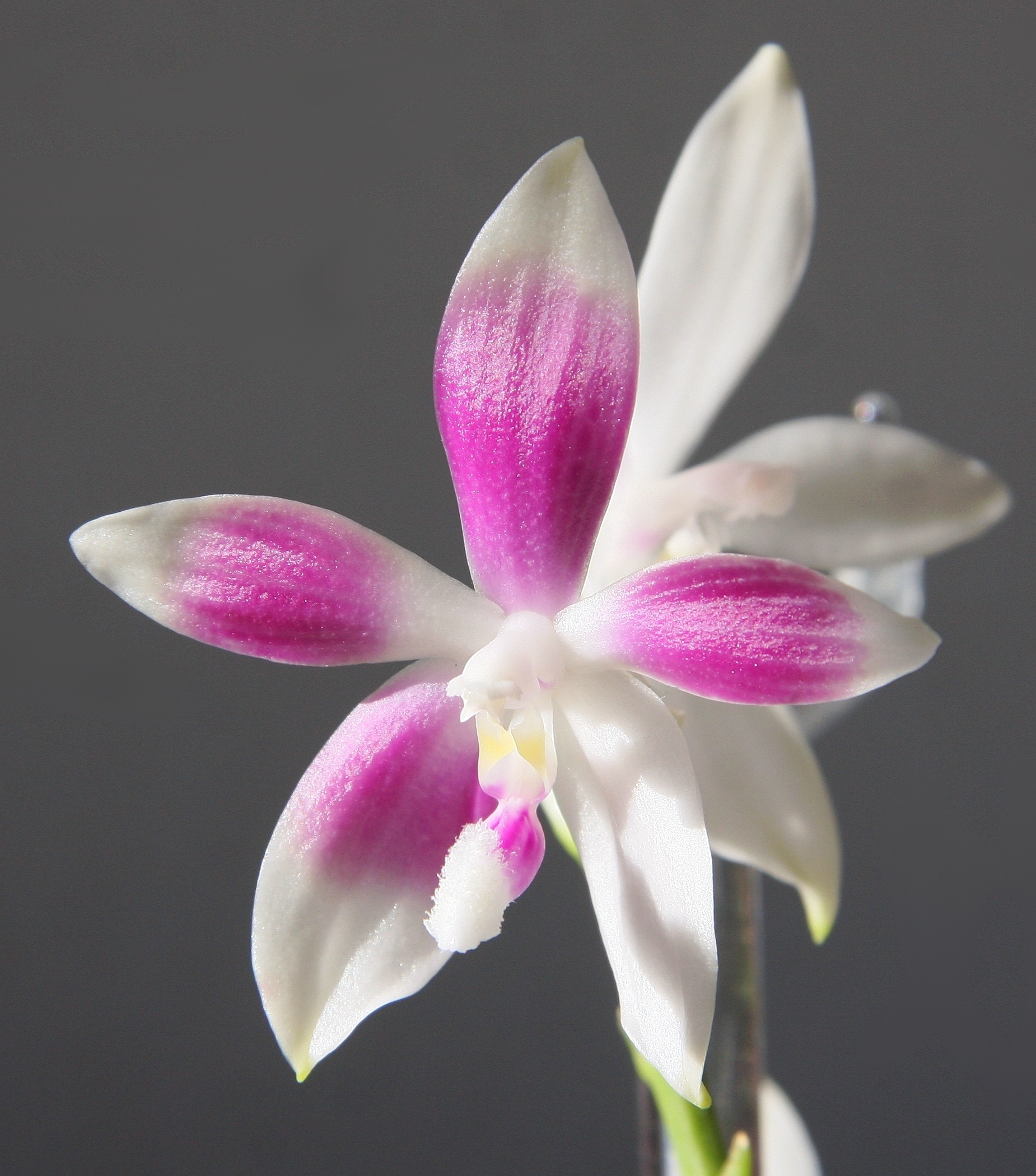 Phalaenopsis speciosa